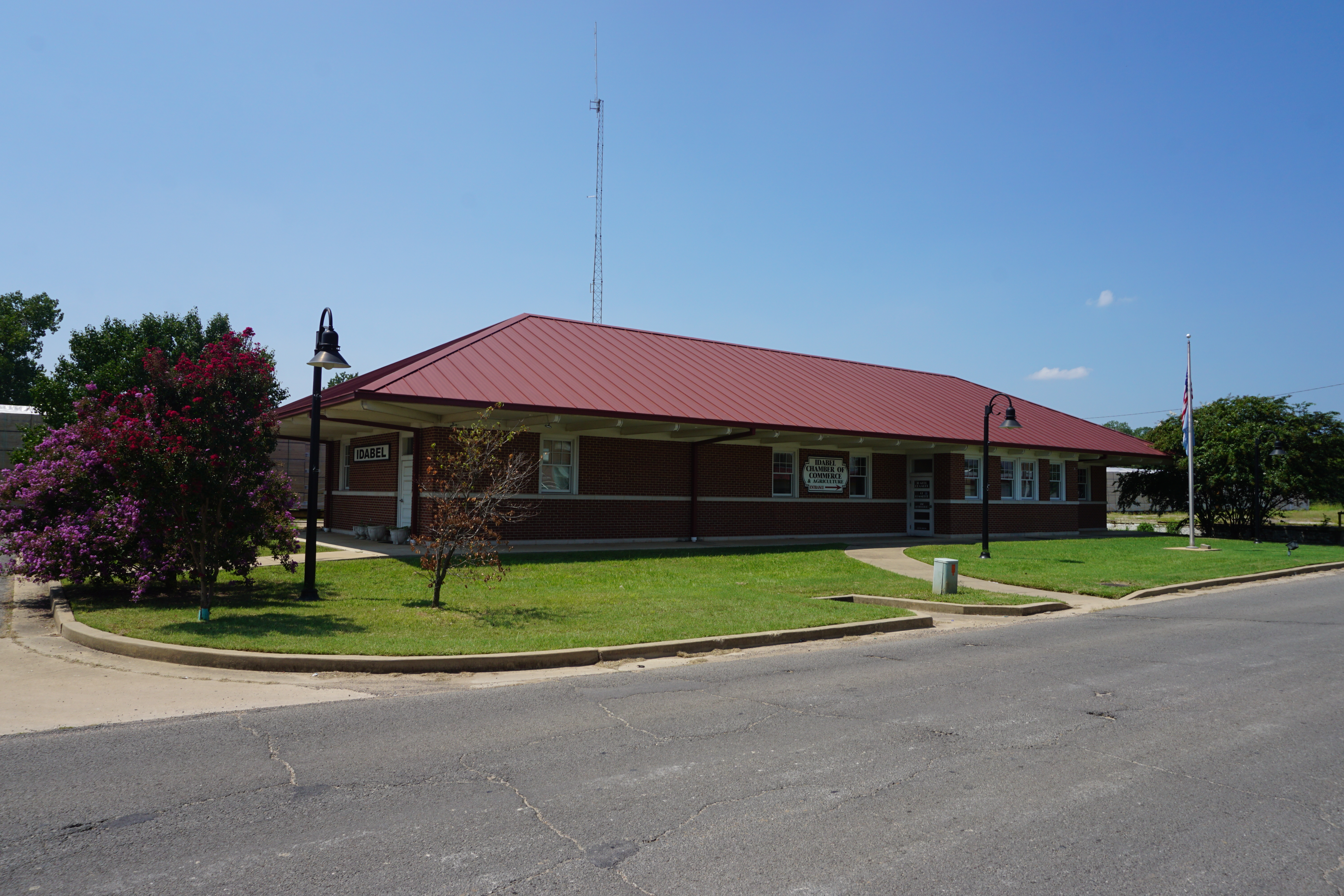 The Idabel Chamber of Commerce & Agriculture (the former Frisco Station) in Idabel, Oklahoma (United States).